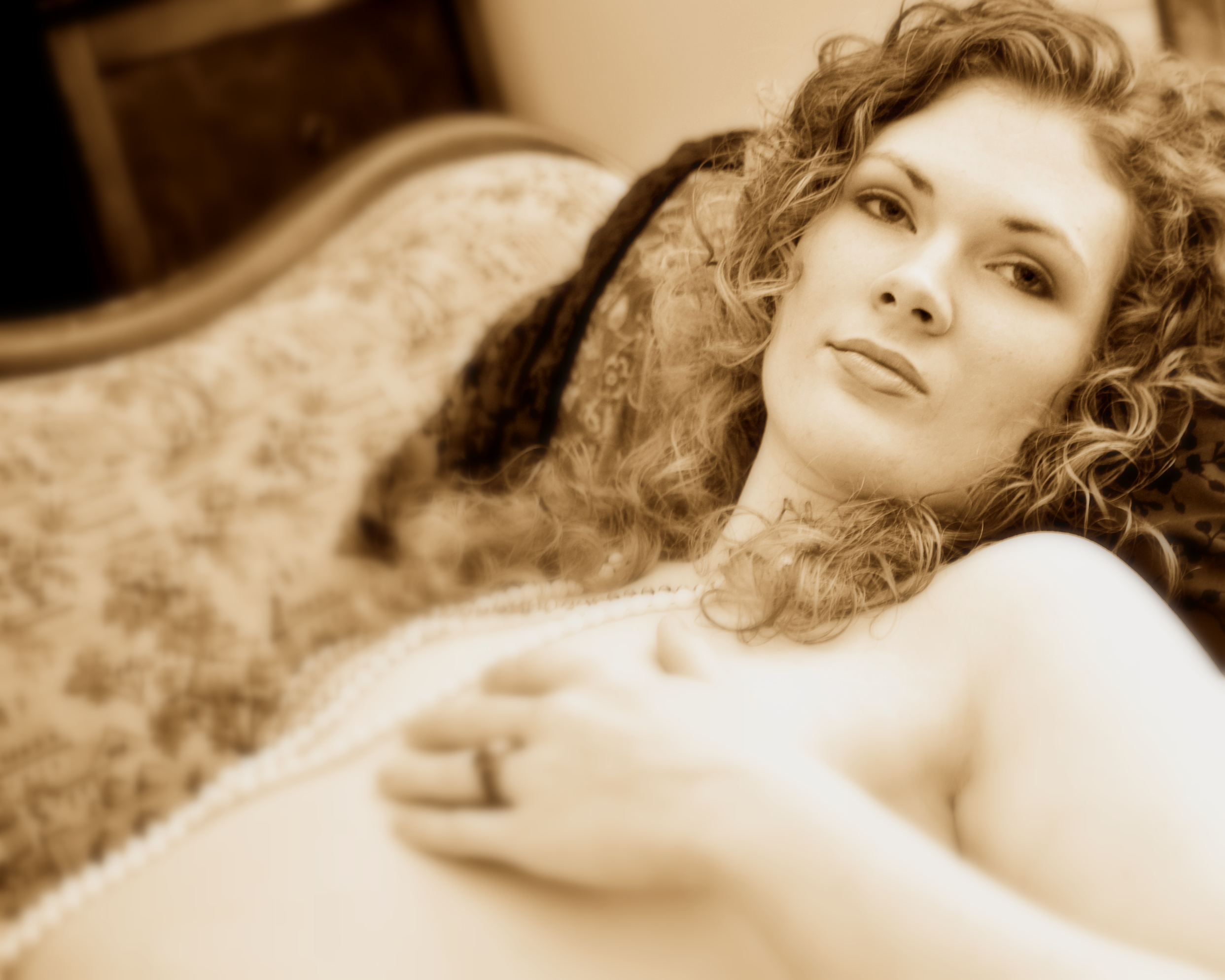 Sepia toned image.